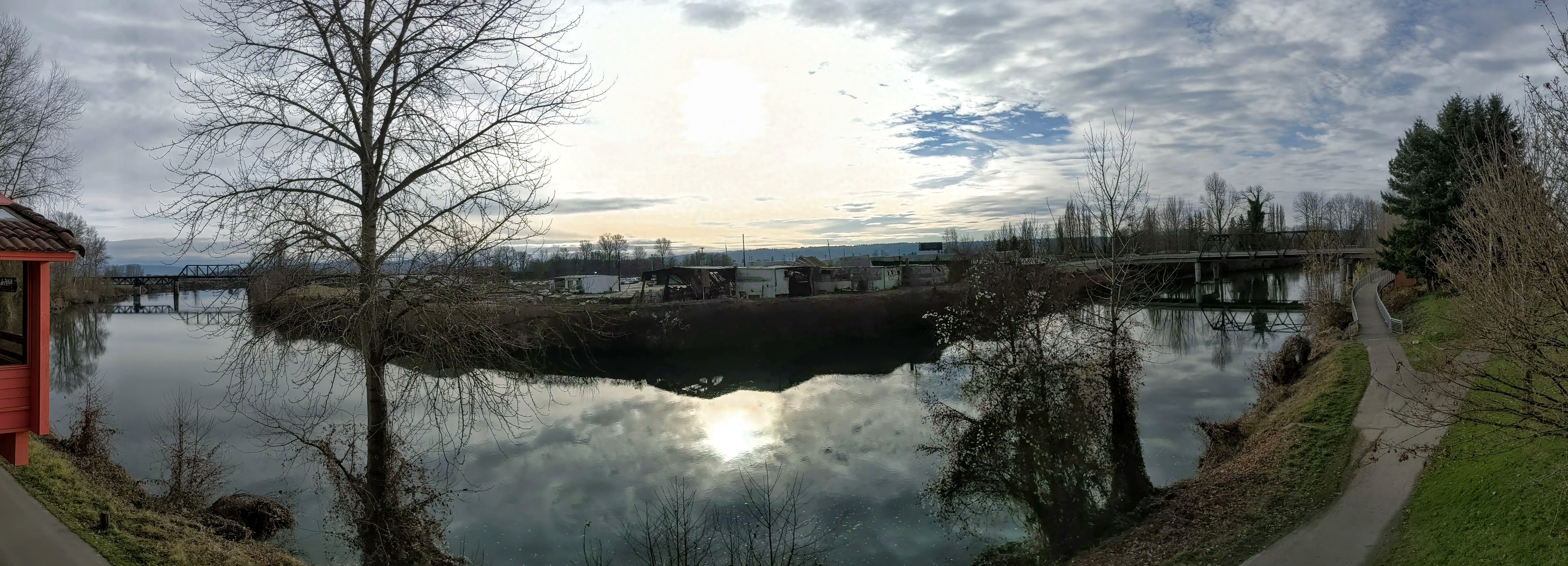 Snohomish River panoramic view from downtown Snohomish, Washington